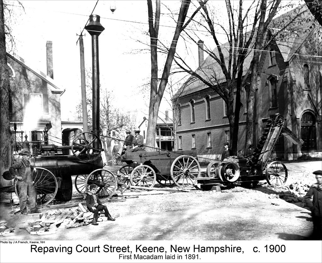 TITLE Court Street in Keene New Hampshire CREATOR French, J.A., Keene NH SUBJECT Streets - NH - Keene Buildings - NH - Keene DESCRIPTION Photograph of Court Street being repaved in Keene New Hampshire. The first macadam was laid in 1891. First laid out in 1785 from the Keene Meetinghouse to Surry and beyond. The straight course and width of Court Street was established in 1808. It was incorporated in the Third N.H. Turnpike and when this was given up in 1822, the selectmen laid out the road over the same course. PUBLISHER Keene Public Library and the Historical Society of Cheshire County DATE DIGITAL 20091120 DATE ORIGINAL 1900? RESOURCE TYPE photographs FORMAT image/jpg RESOURCE IDENTIFIER HS302-P2389 RIGHTS MANAGMENT No known copyright restrictions.